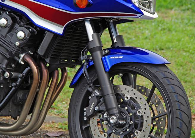 suspention